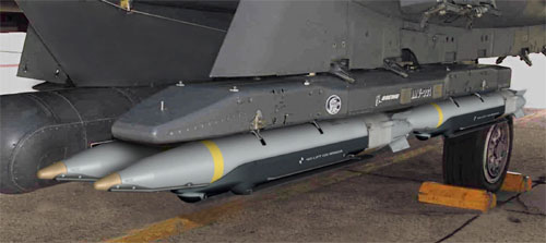 Bomb rack BRU-61 with four GBU-39 Small Diameter Bombs I, U.S. Air Force